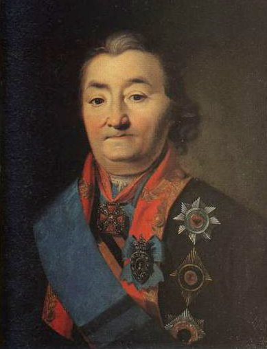 Portrait of Alexei Grigoryevich Orlov (1737-1808)